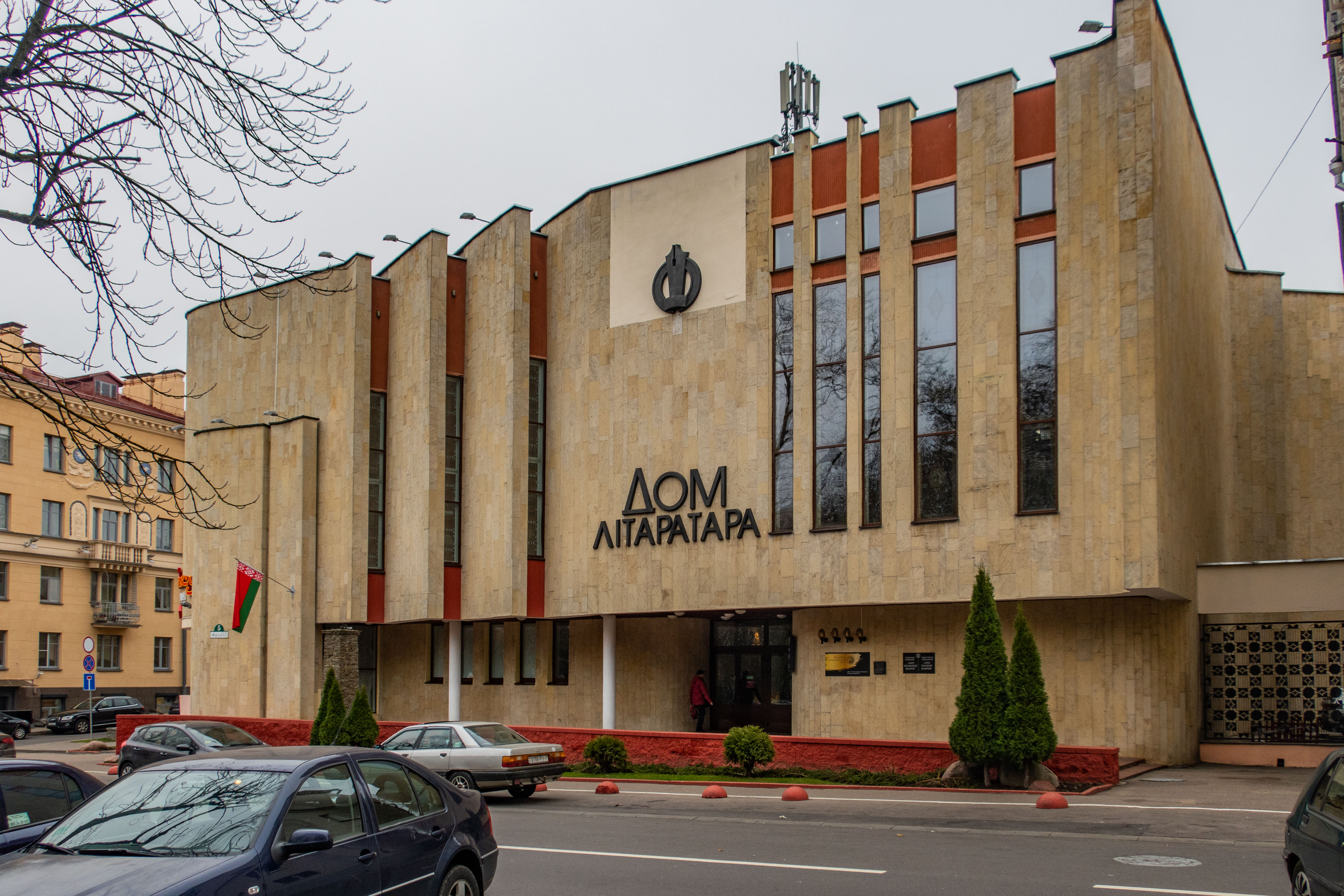 Frunze street. Minsk, Belarus